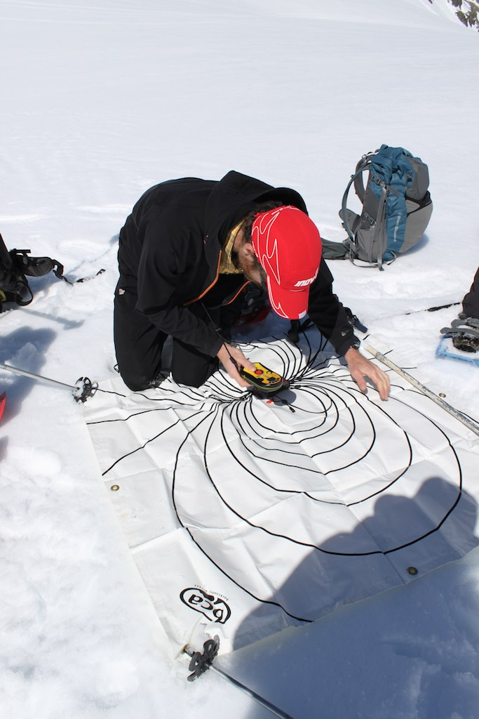 Training with avalanche transceivers, switzerland.